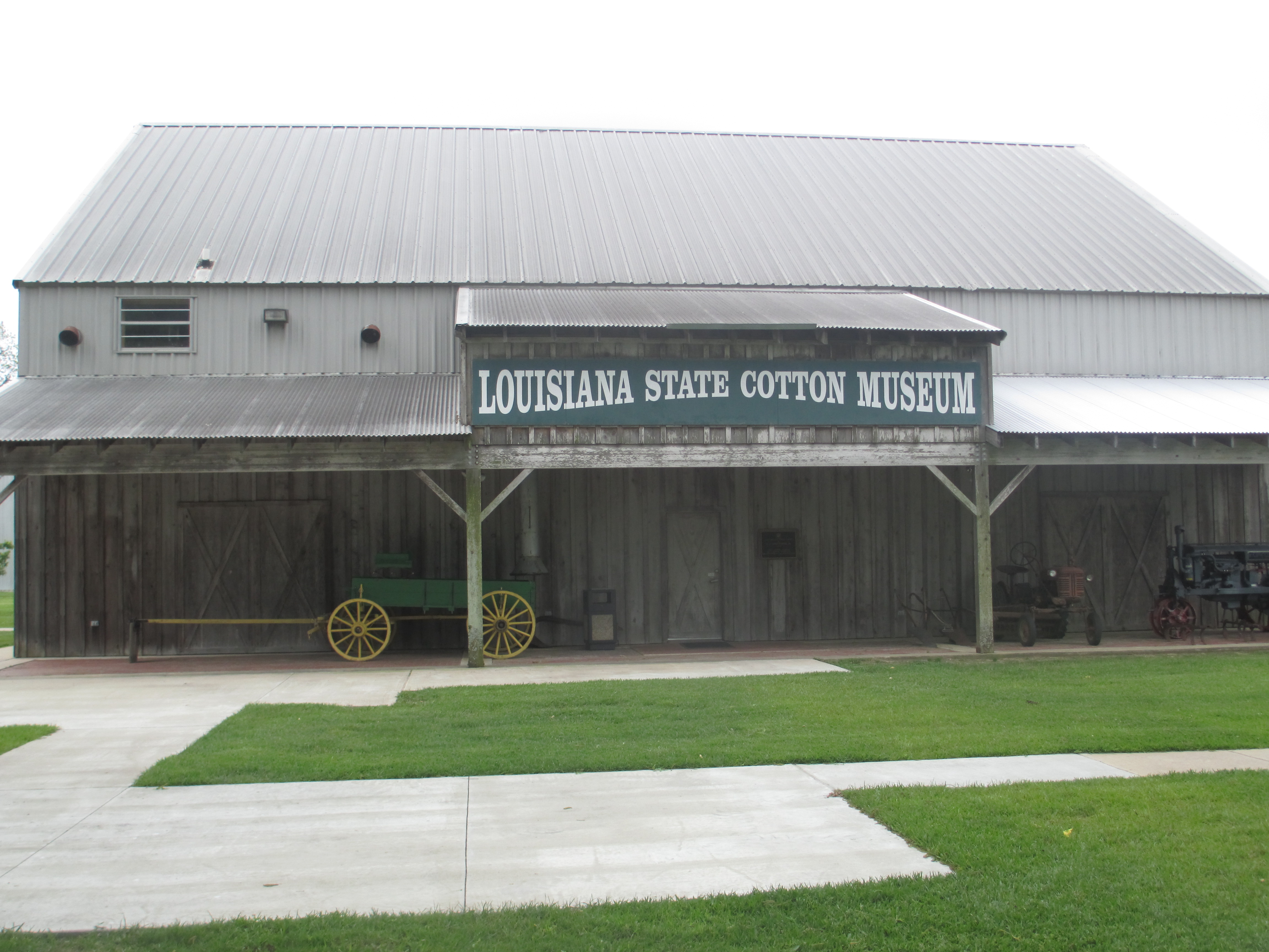 I took photo of Louisiana State Cotton Museum in Lake Providence, with Canon camera.